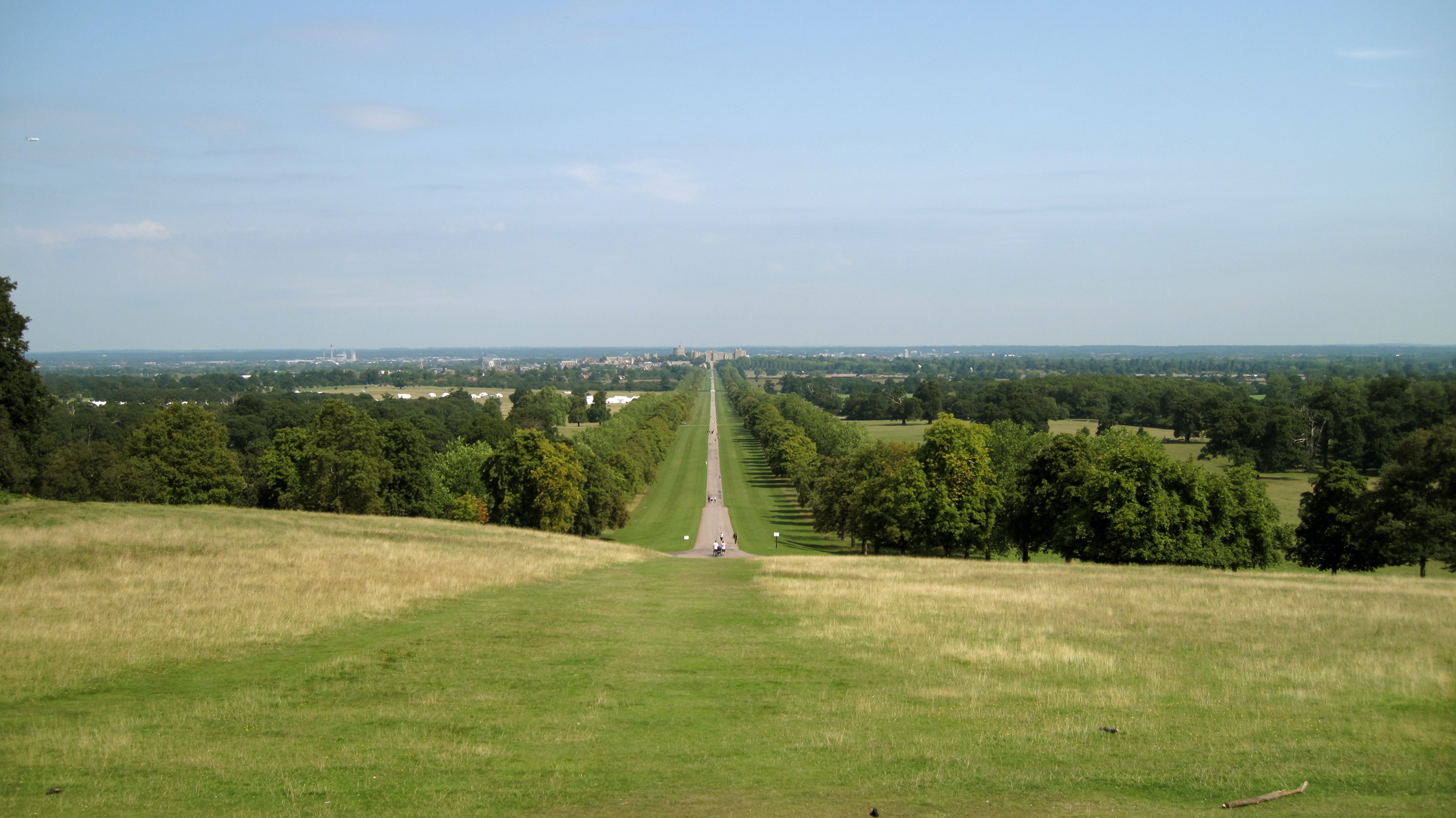 The Long Walk and Windsor Castle seen from Snow Hill, Windsor Great Park. The distance between the castle and the hill is approximately 5 kilometers, which takes an hour of pleasant walk.